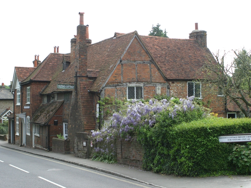 Miltons Cottage, Chalfont St Giles, England